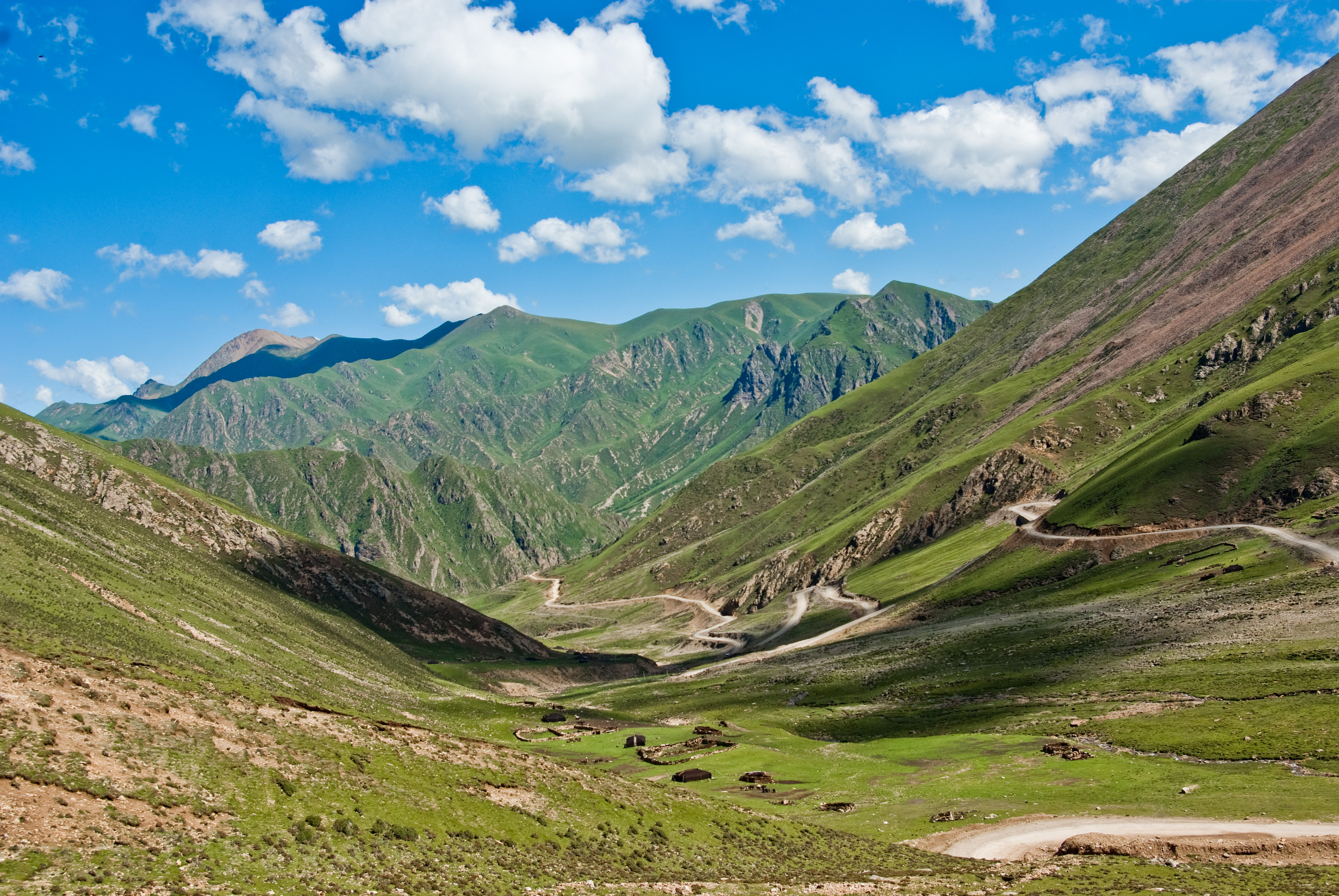 Landscapes of Tibet (near the Reting monastery)